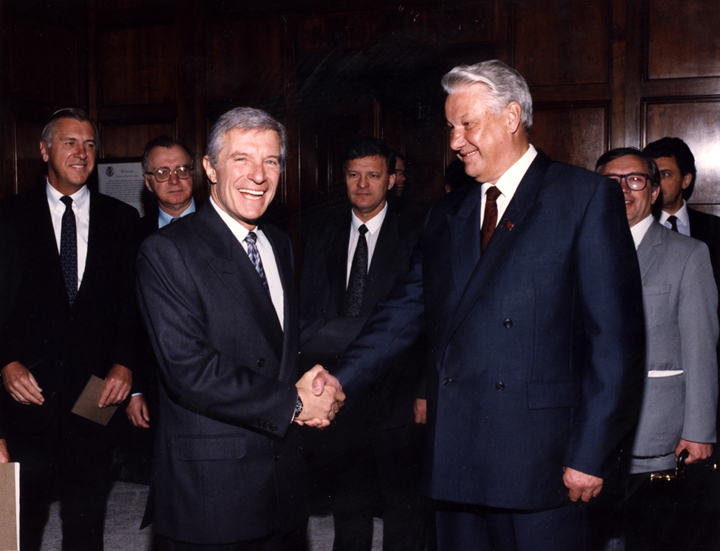 Robert Adam Mosbacher, U.S. Secretary of Commerce, shaking hands with former Russian president Boris Yeltsin Source: Department of Commerce Photographic Services